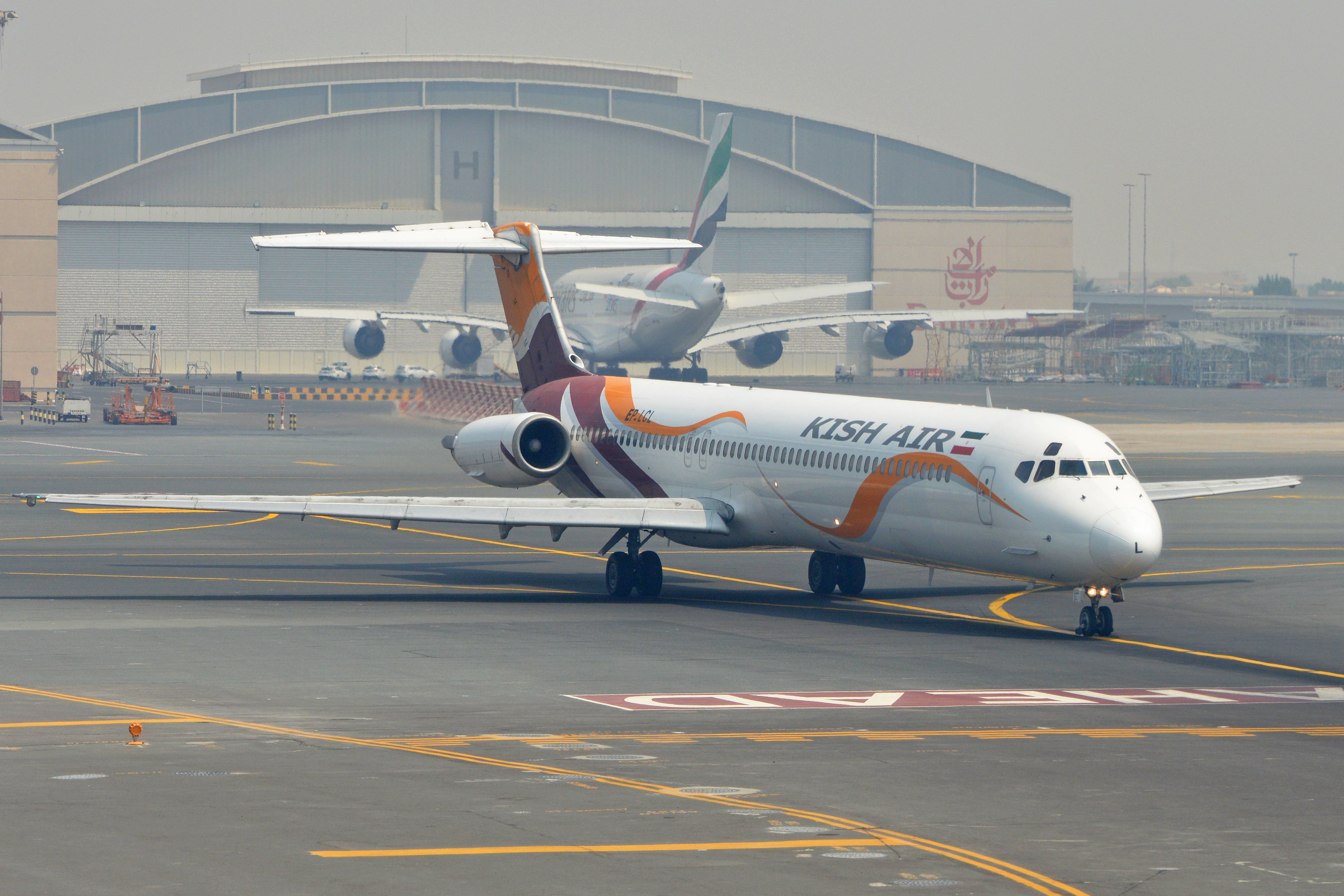 c/n 53229, l/n 2105. Built 1995 as 'I-DATL' for Alitalia who operated it until 2010. It then passed briefly to Bulgarian Air Charter as 'LZ-LDL' before joining Iranian airline Kish Air as 'EK-82229', later reregistered as 'EP-LCL'. Seen waiting to line-up to depart Dubai International Airport (DXB), United Arab Emirates. 17-9-2015. Taken from my seat in Virgin Atlantic A330 'G-VINE'.